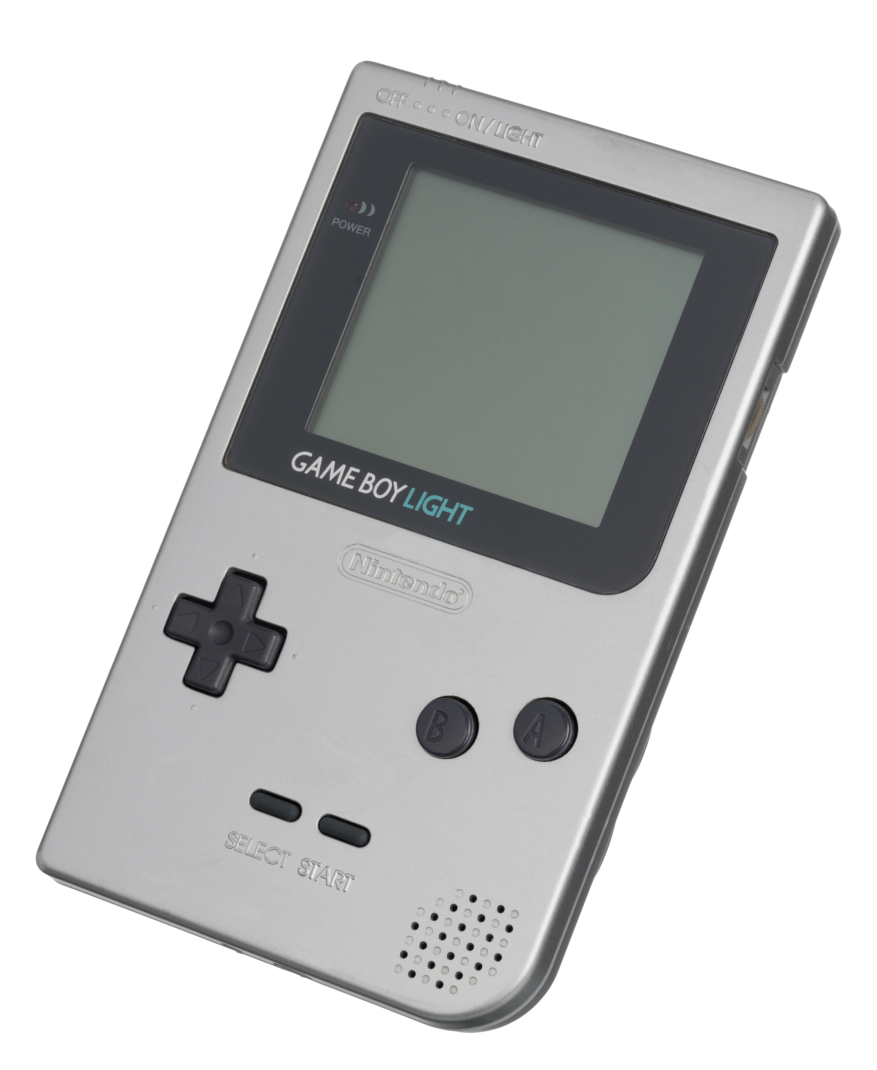 The Game Boy Light, a gaming handheld released by Nintendo in 1998. It is a redesign of the original Game Boy hardware, released nine years earlier. It shares many design aesthetics of the Game Boy Pocket from 1996, but adds a backlight and goes from using 2 AAA to 2 AA batteries. This model was only released in Japan and was quickly replaced by the Game Boy Color, which was released later that year.